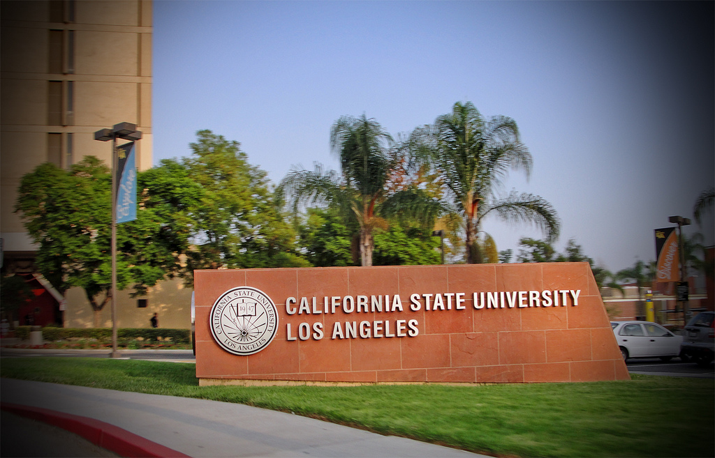 CSULA sign on Campus